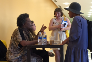 Poet Claudia Rankine, whose work has been featured in Harper's and The Kenyon Review, speaks to audience members after a lecture.